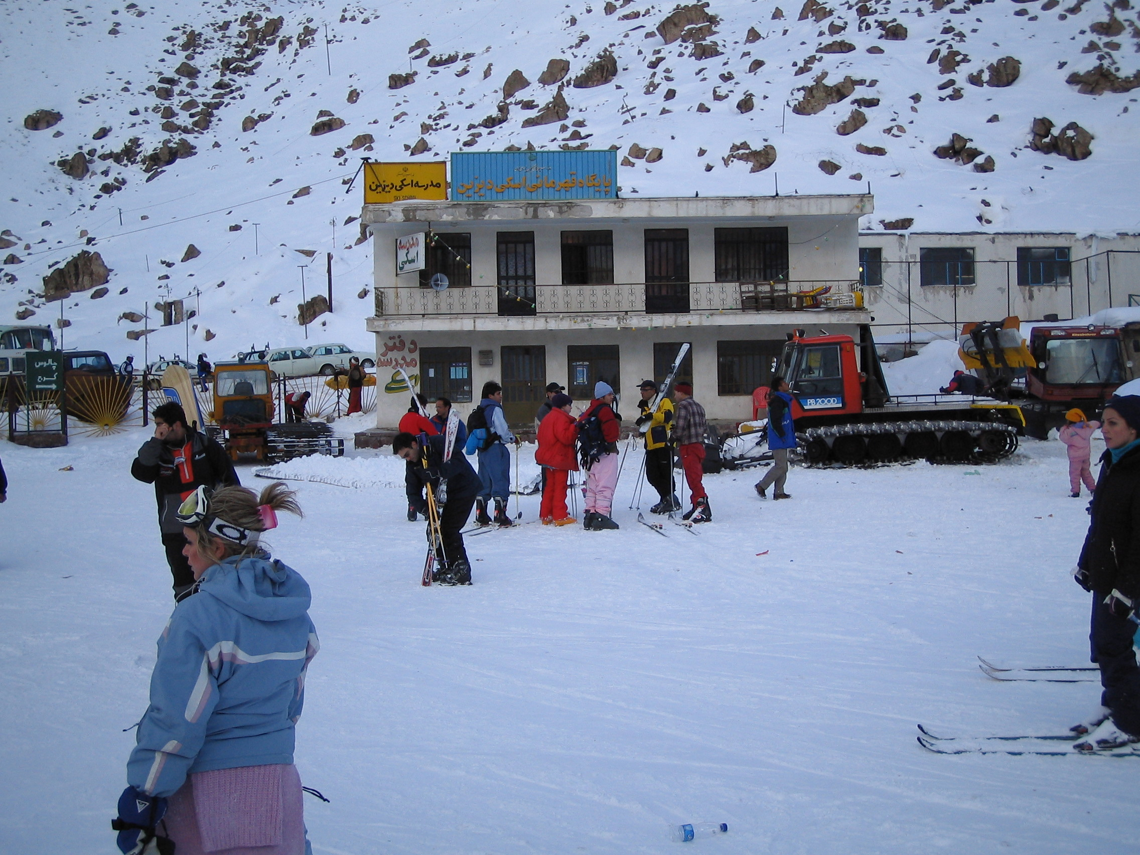 After a ski session in Dizin, Iran.